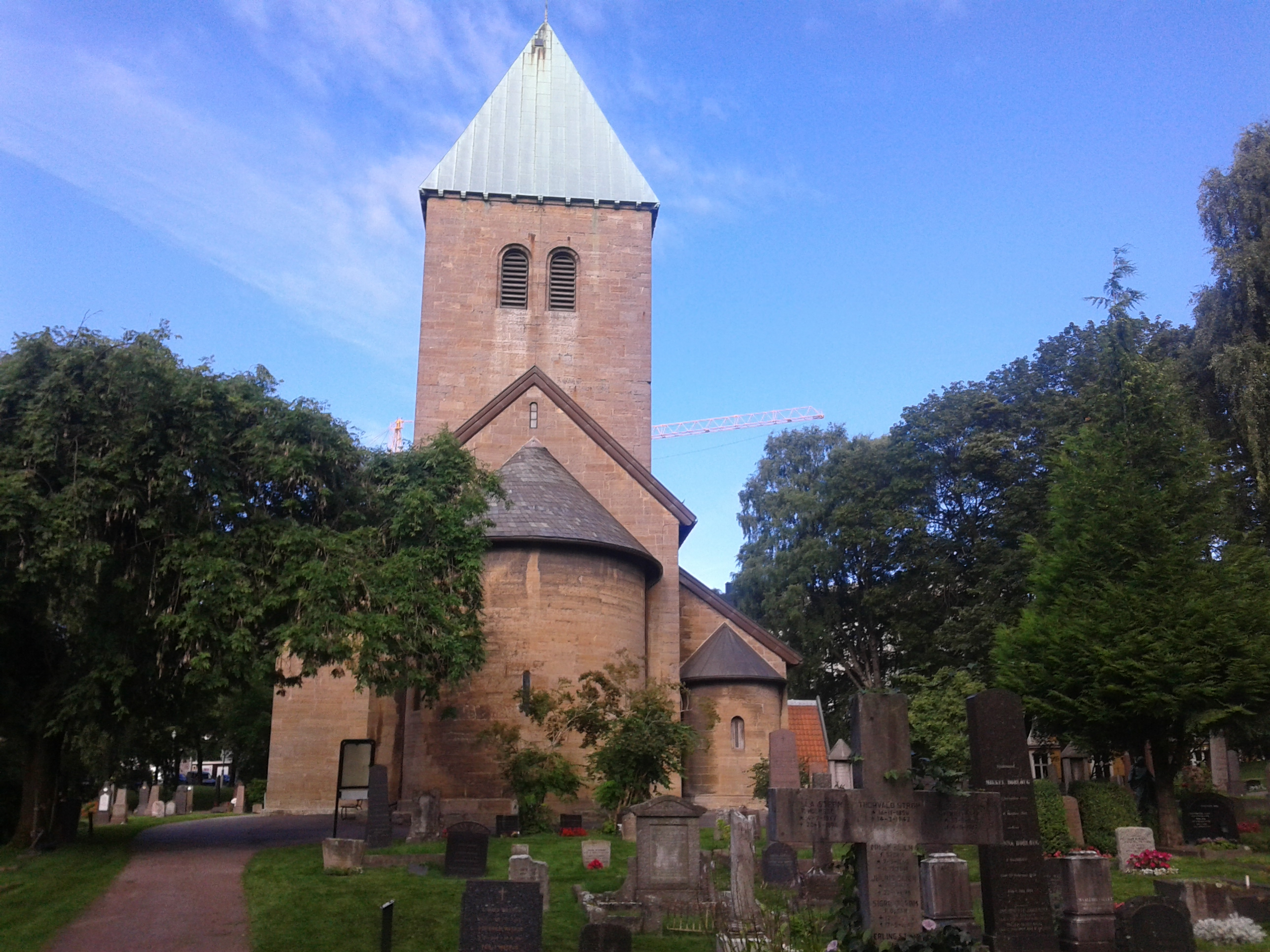 Gamle Aker Kirke Oslo apses